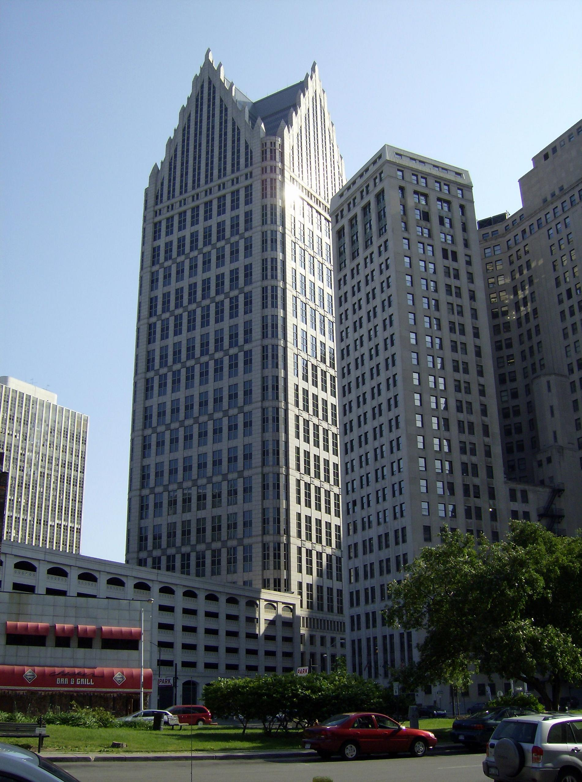 self made